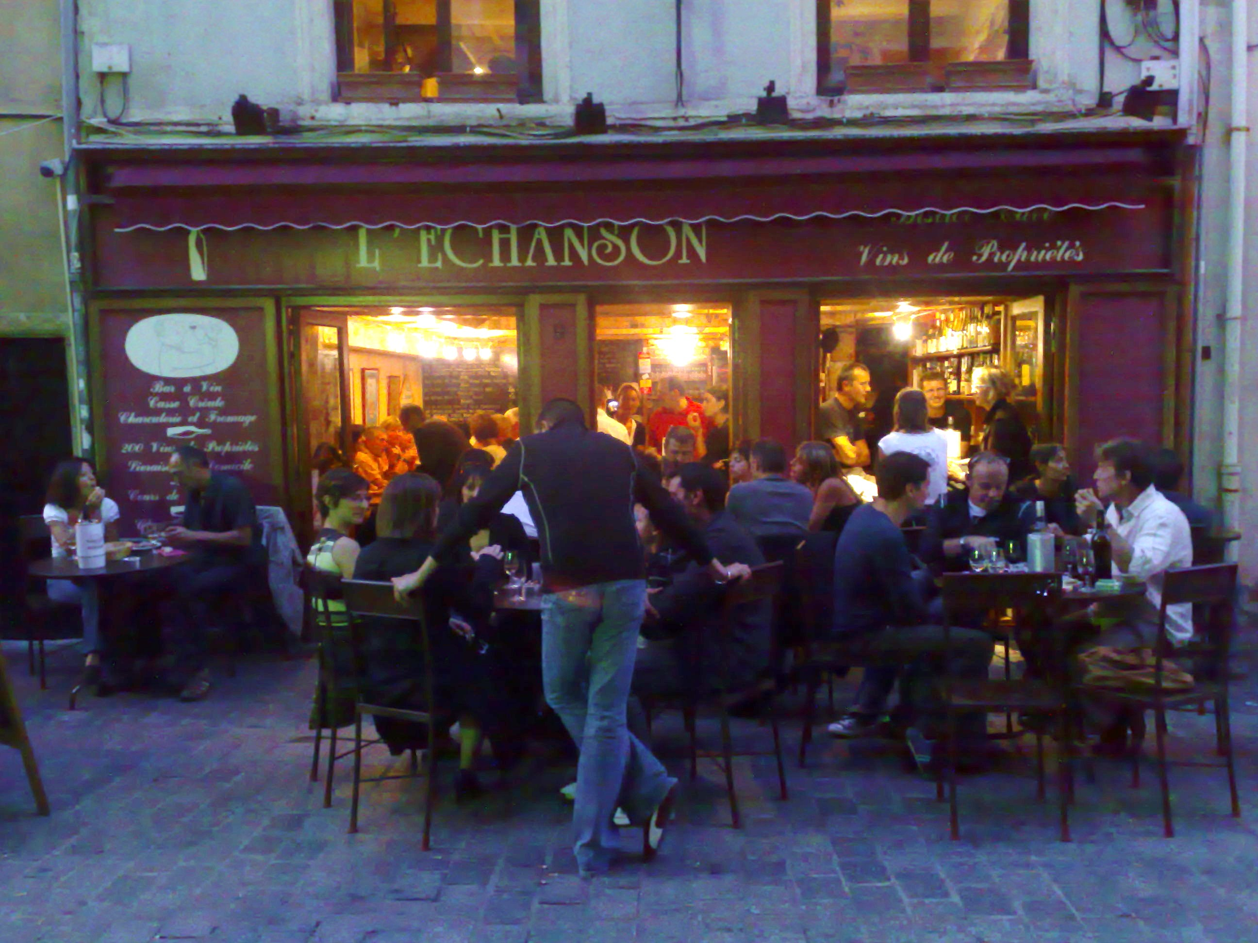 wine bar L'échanson in Nancy, France